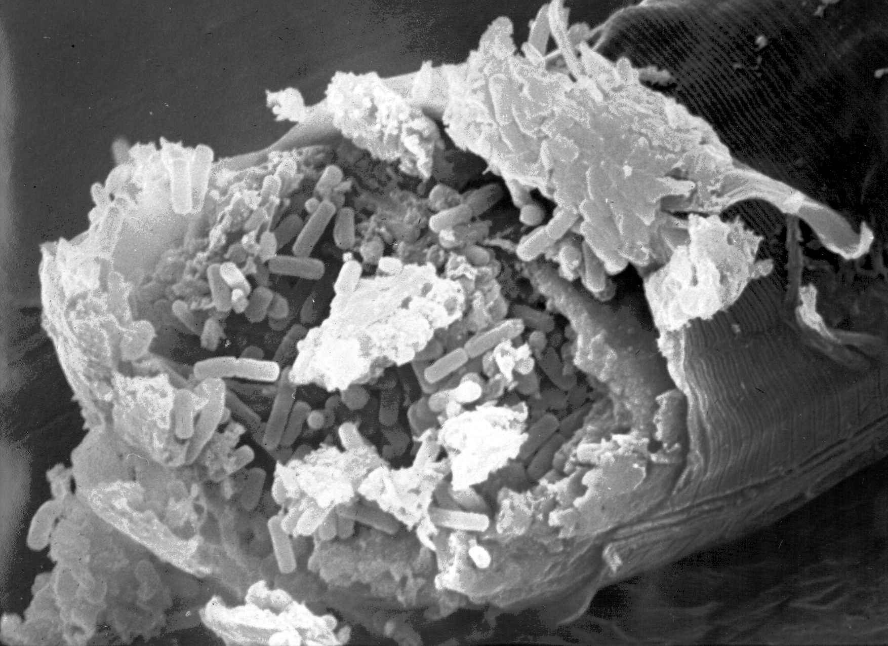 Caenorhabditis elegans intestine infected with Bacillus thuringiensis